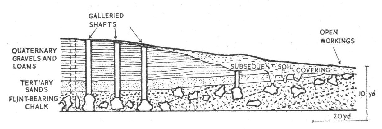 Own scan of old print